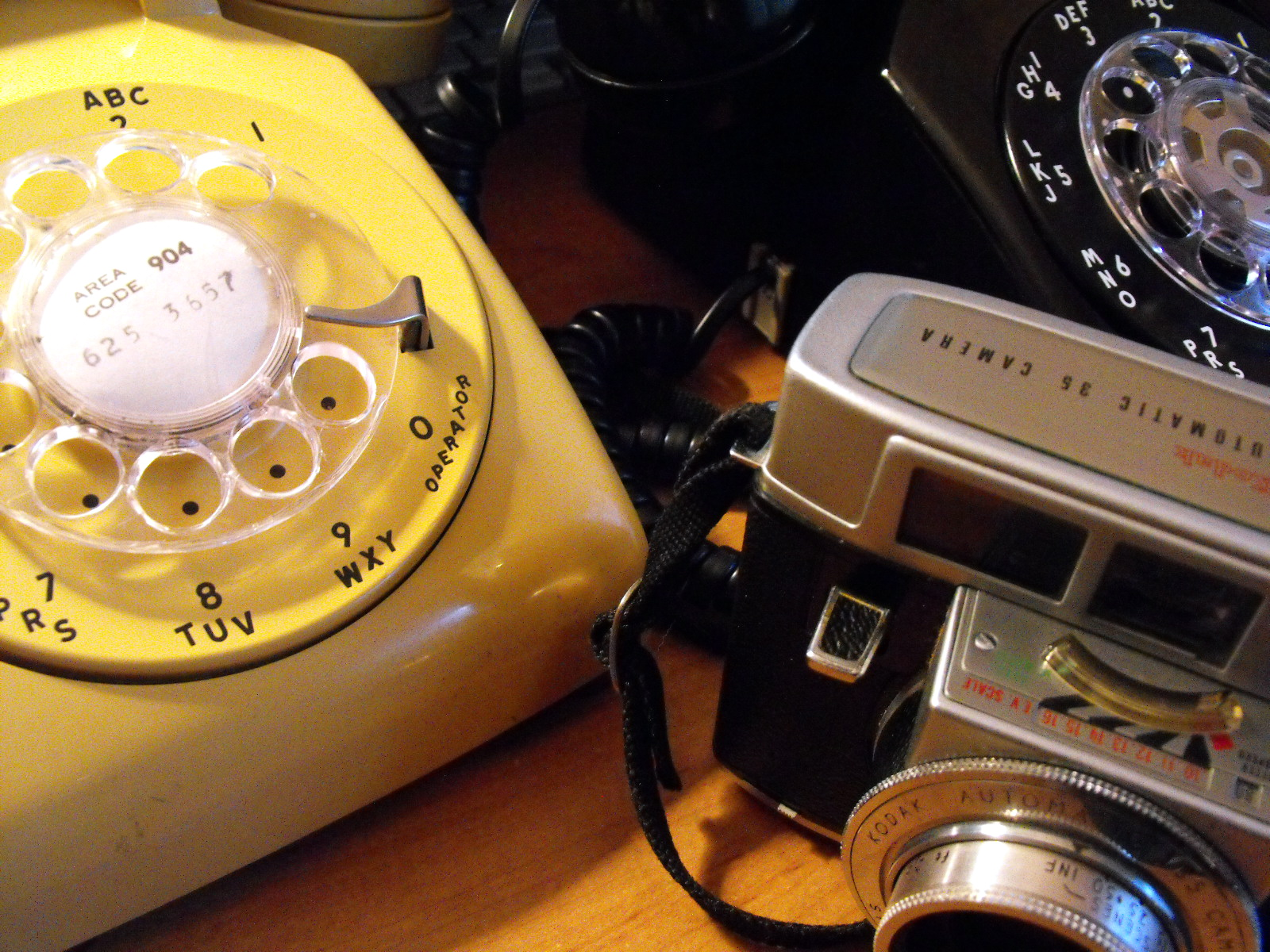 two rotary phones and a camera from the 60s